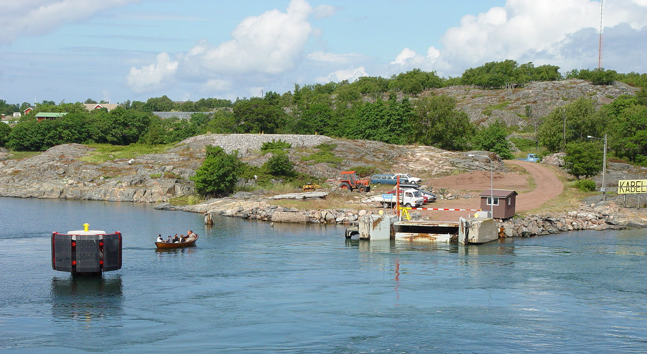 Åland: Ferry route Södra Linjen from Langnäs to Kökar, Husö